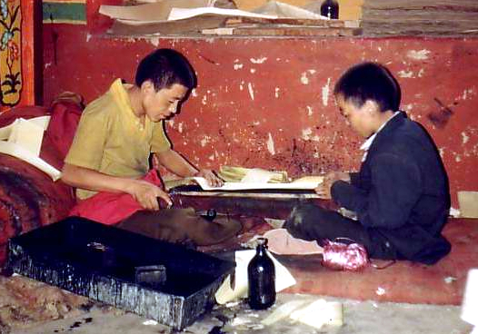 I took this photo myself in 1993. John Hill 01:45, 29 January 2007 (UTC)